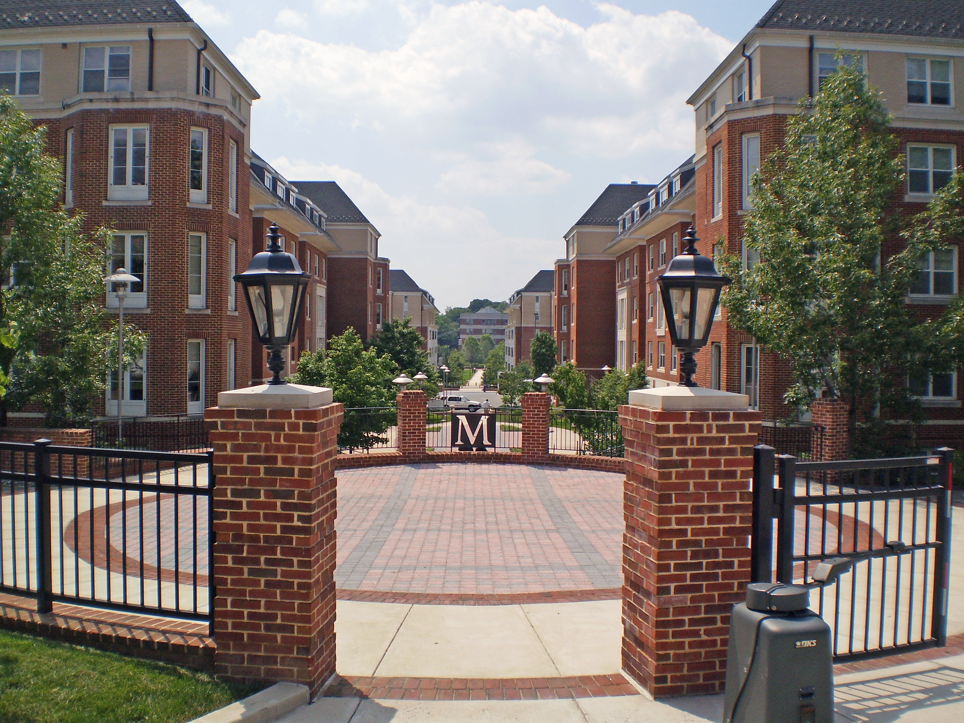 View of the University of Maryland near the South Commons residential area.